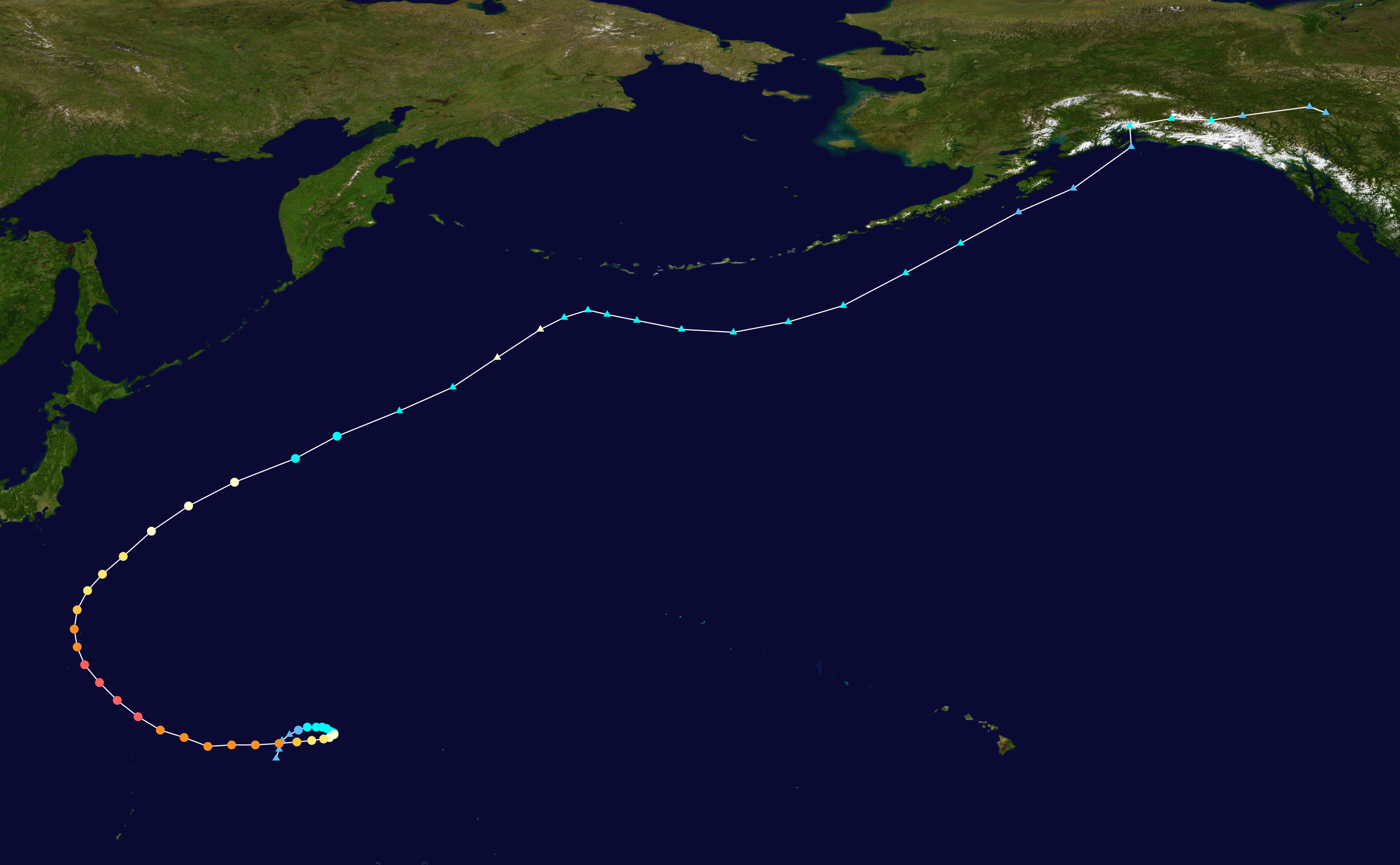 Typhoon Yagi (2006) track. Uses the color scheme from the Saffir-Simpson Hurricane Scale.